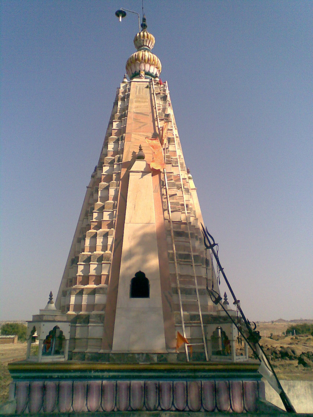 Lord Bhoodsiddhanath Tempal